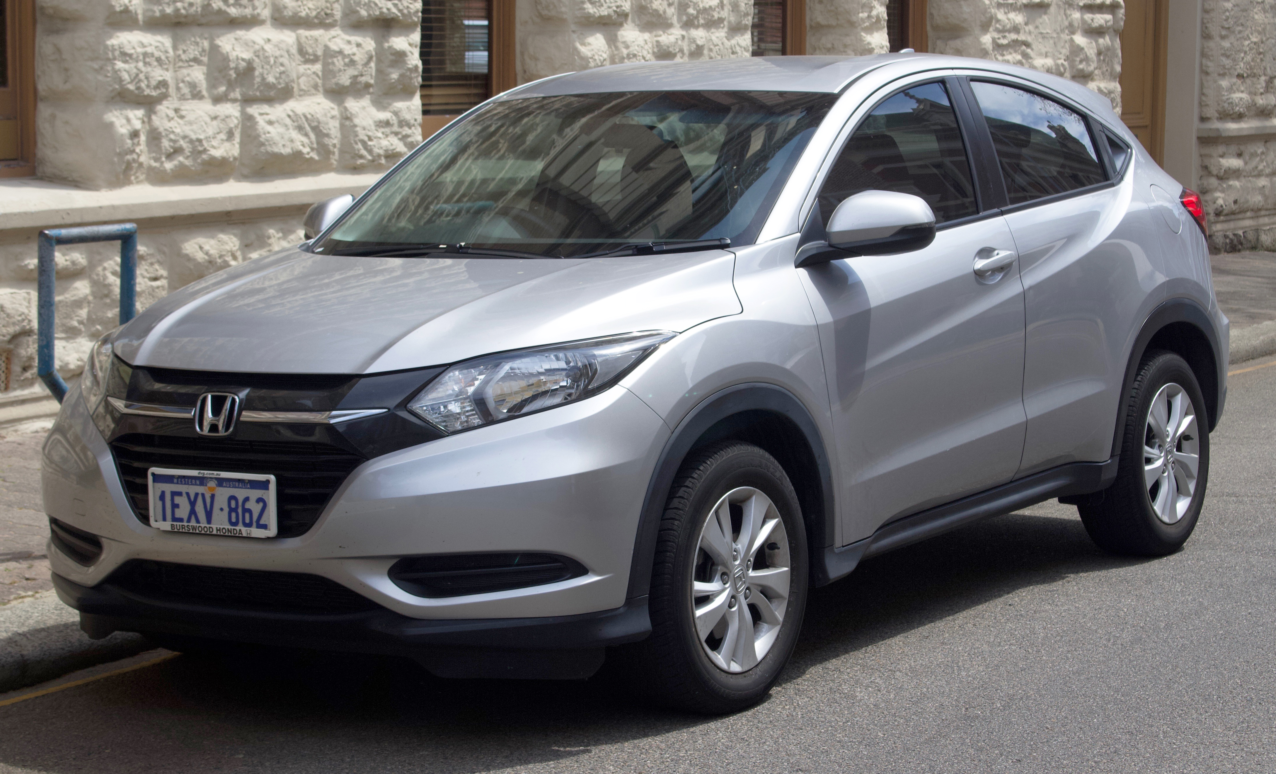 2015 Honda HR-V VTi wagon. Photographed in Fremantle, Western Australia, Australia.